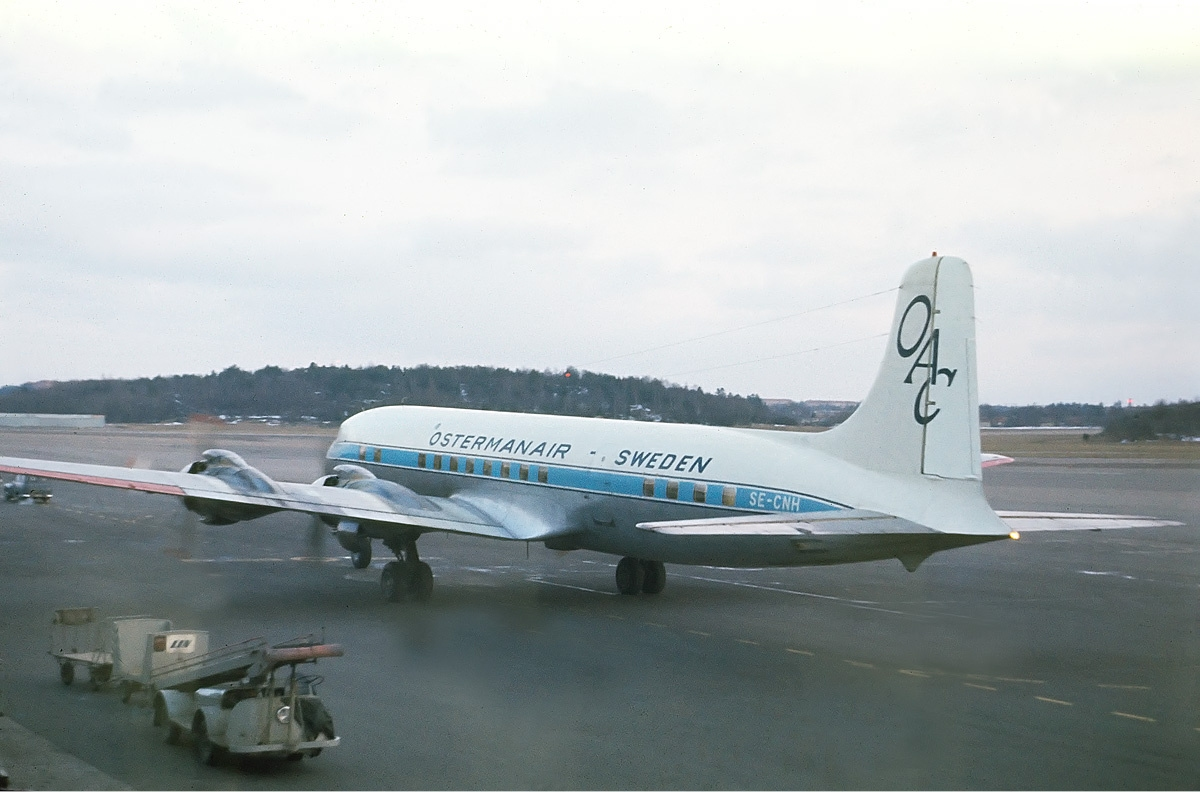 Osterman Air Charter Douglas DC-7